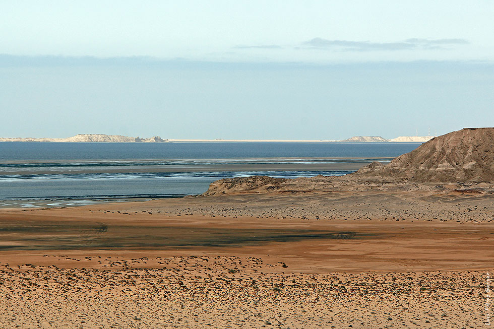 Dakhla Bay in Dakhla, Western Sahara